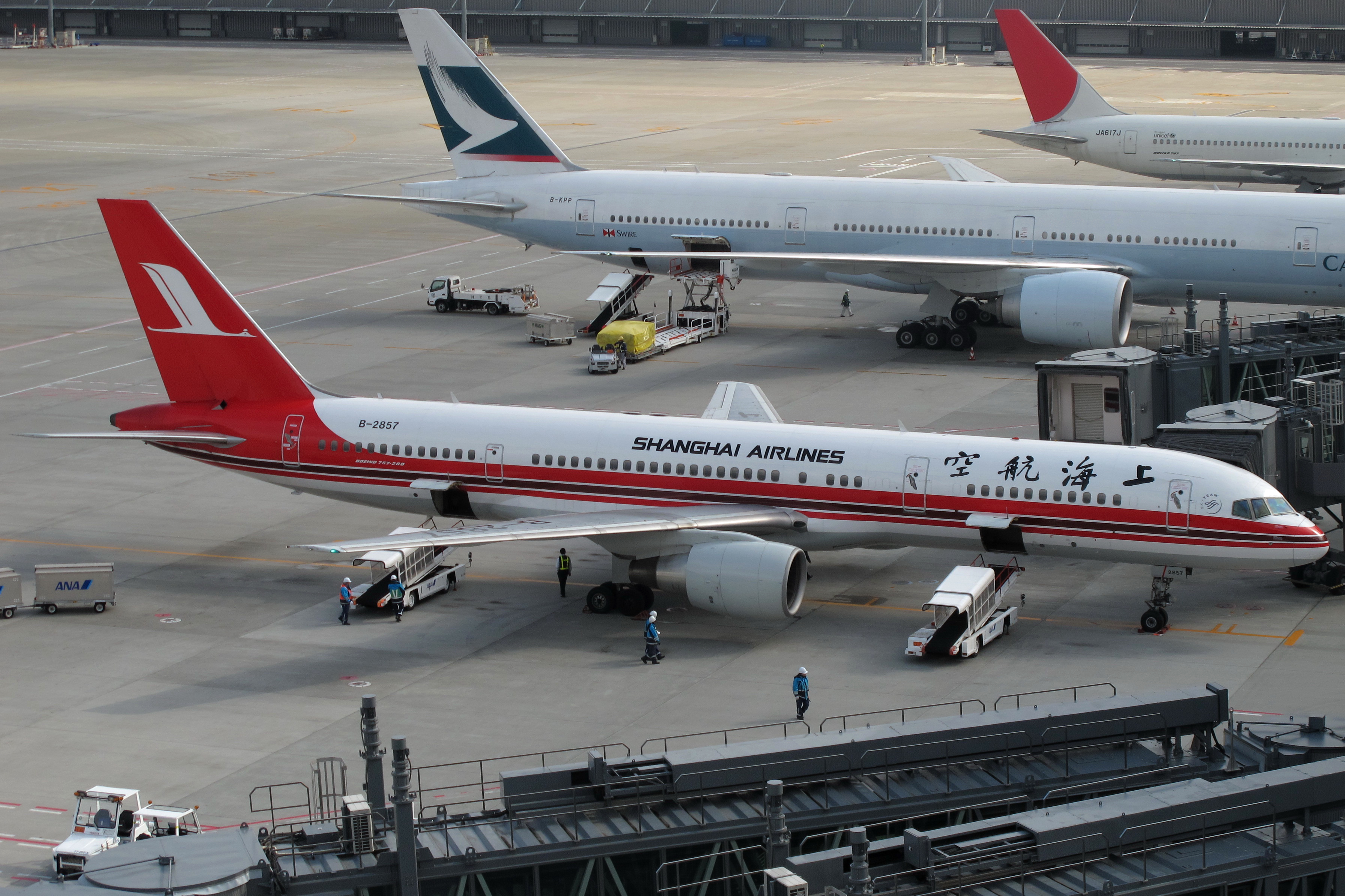 Tokyo International Airport, Boeing 757-26D, c/n:33959, Shanghai Airlines